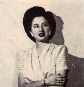 Princess Hiam